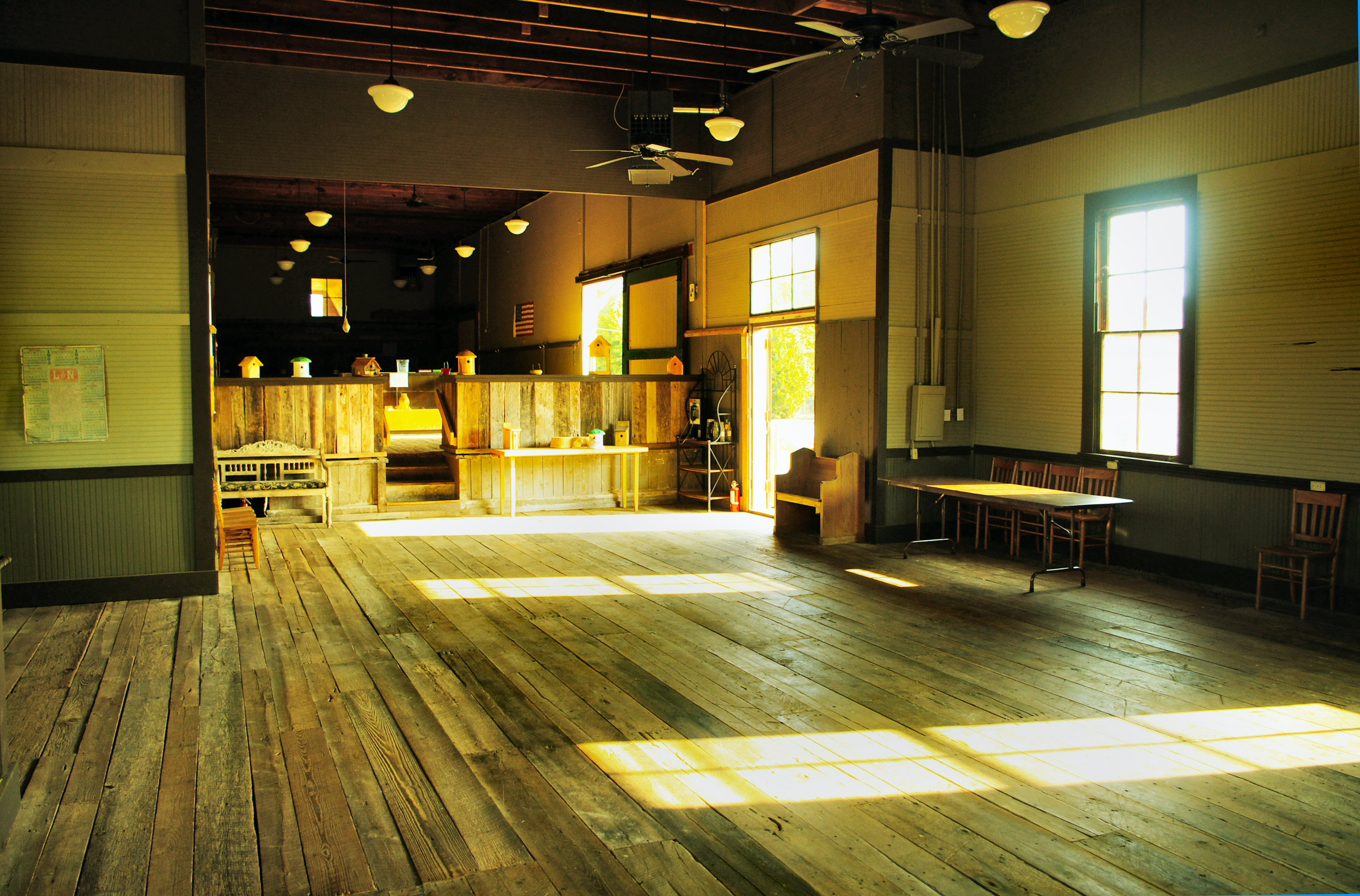 The interior of the Greenback Depot in Greenback, Tennessee, United States.